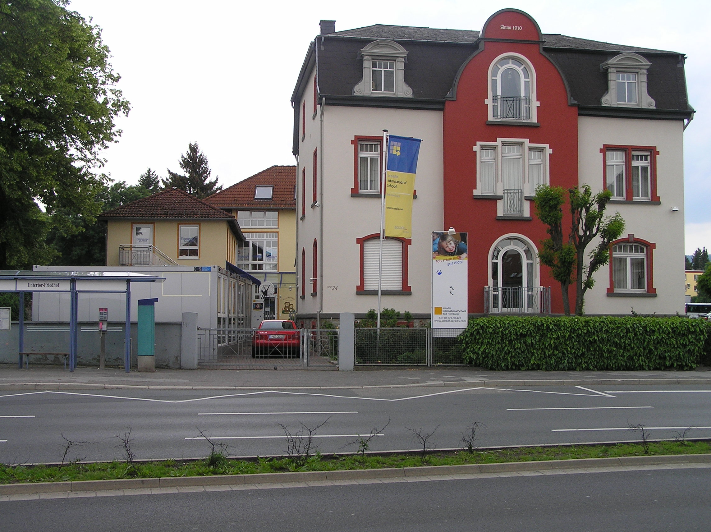 accadis, bilingual private school in Bad Homburg vor der Höhe, Hesse, Germany